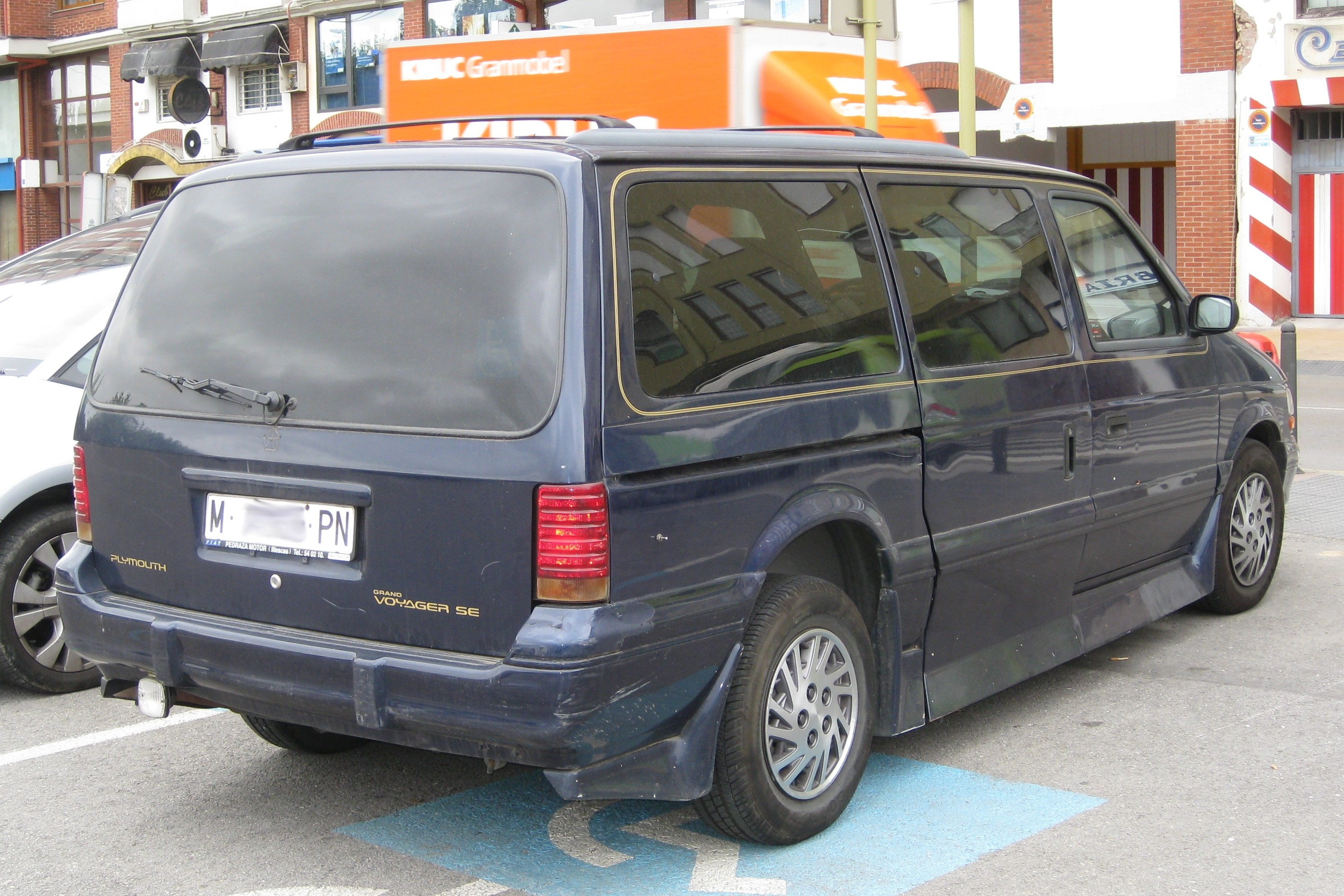 Not much of a rare foreign car because we have this badged as Chrysler but still I loved finding it, shamely it didn't seem to be very well cared, the paint had many dents and sadly the nice Chrysler bonnet ornament was mising. It was prepared for handicapped people hence the lower skirts on the right side. It had a 1994 plate from Madrid.